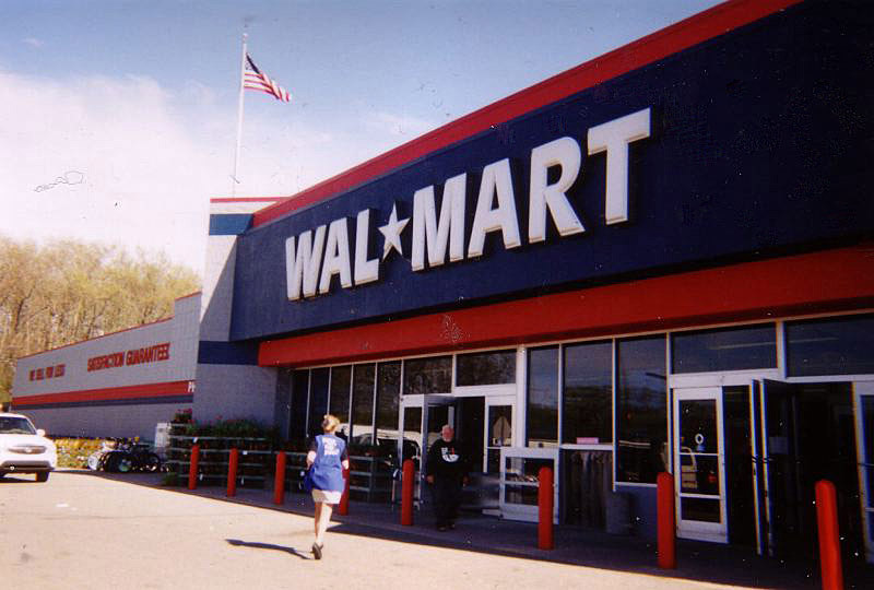 This was the Wal-Mart store in Houghton Lake, Michigan. It opened in 1989 as an Ames, anchoring the Village Square shopping center. Ames pulled out of Michigan sometime around 1993 and it became Wal-Mart not long afterward. Considering how small Houghton Lake is, I'm amazed that they managed to get Kmart, Big Wheel (now a Home Depot) and Ames in such rapid succession. This particular building closed up in 2004ish when Wal-Mart moved to a supercenter down the road. Dunham's took this side; Tractor Supply took the east end, and the middle is still untenanted. The strip it's attached to is looking worse for wear, with many vacancies.